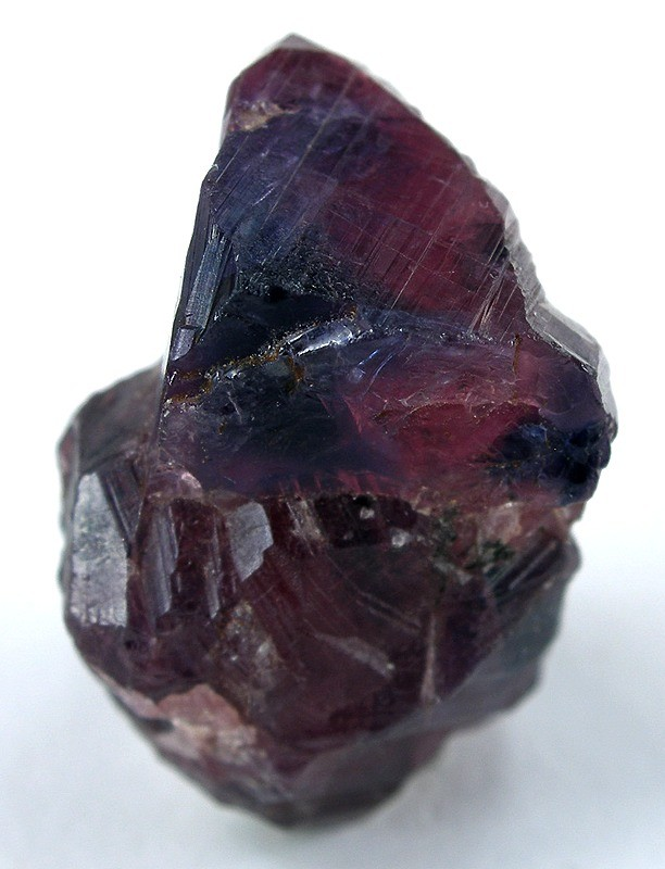 Corundum (Var.: Ruby), Corundum (Var.: Sapphire) Locality: Winza, Mpapwa, Mpapwa (Mpwampwa) District, Dodoma region, Tanzania (Locality at ) Size: 2.1 x 1.7 x 1.5 cm. This specimen features a sharp doubly terminated, lustrous and gemmy, lavender and red, bi-colored crystal atop that is about 1 cm across. It is very gemmy. When backlit, this crystal shows particularly interesting zonation effects. 50 carats.